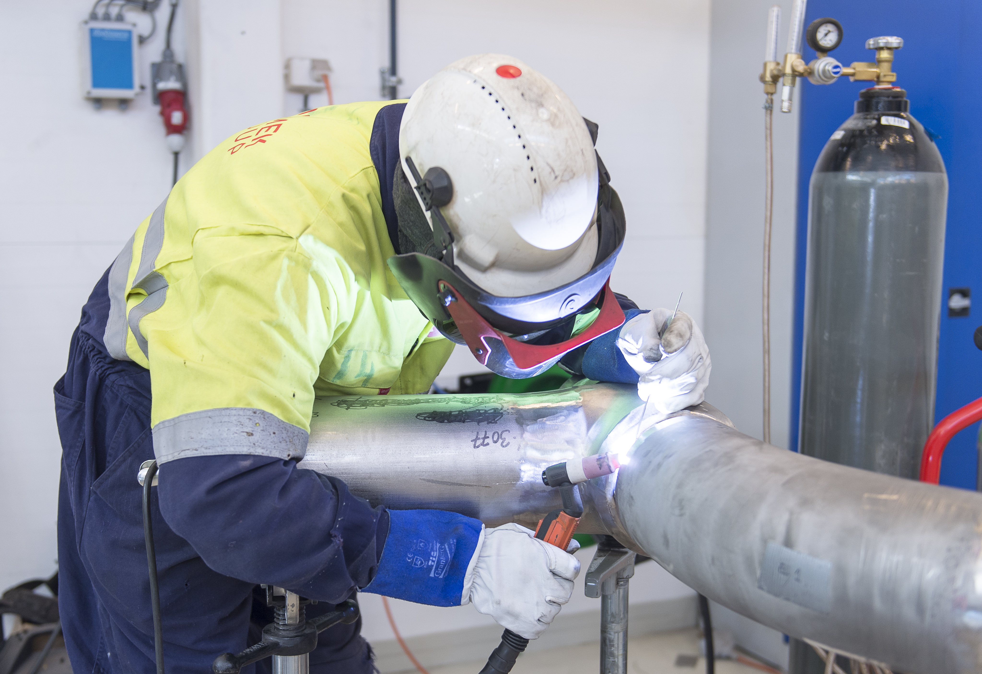 Industrial worker welding a pipe.